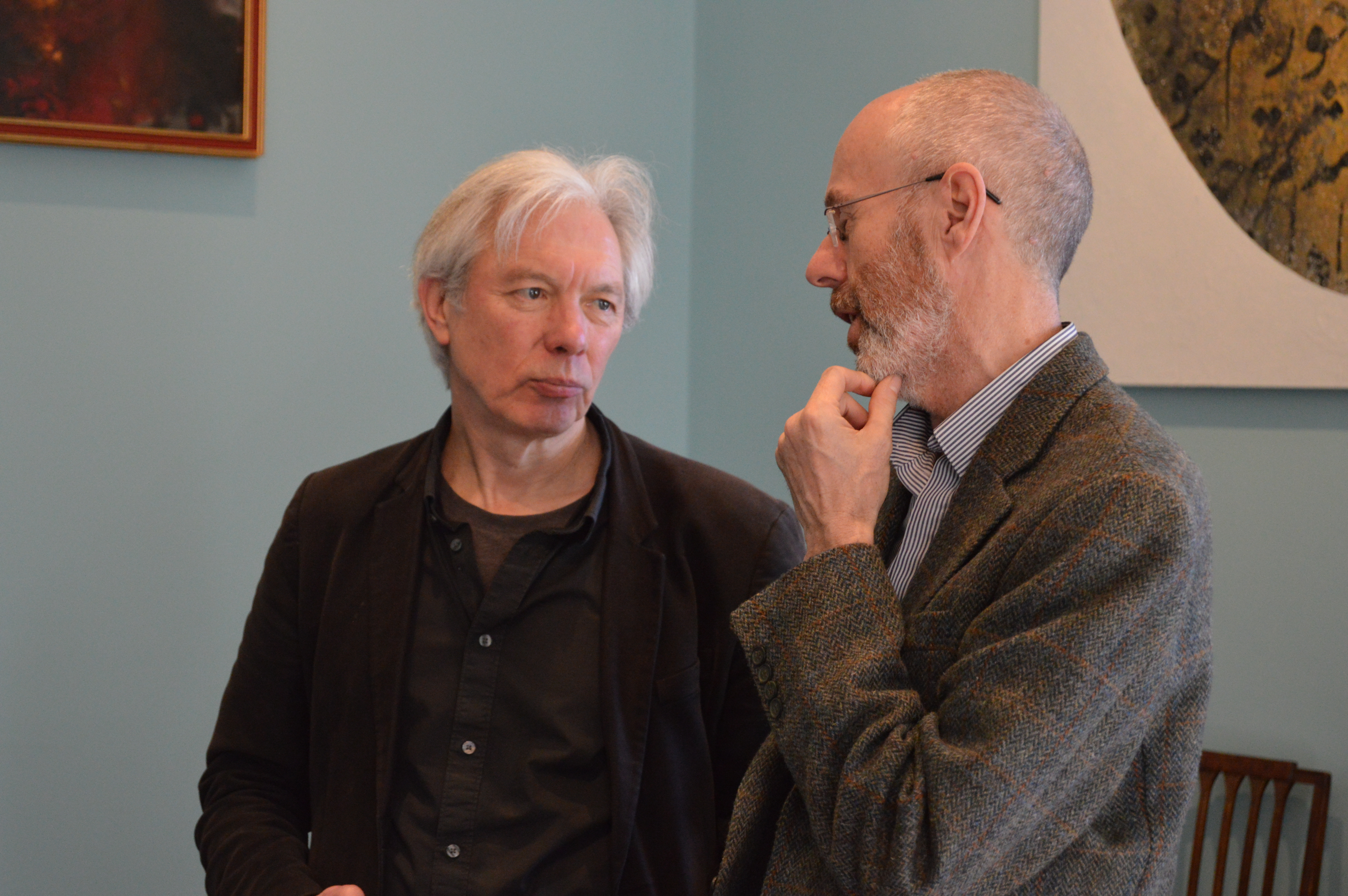 Mike Pitts (left), British Archaeology, and Mike Heyworth (right), Council for British Archaeology